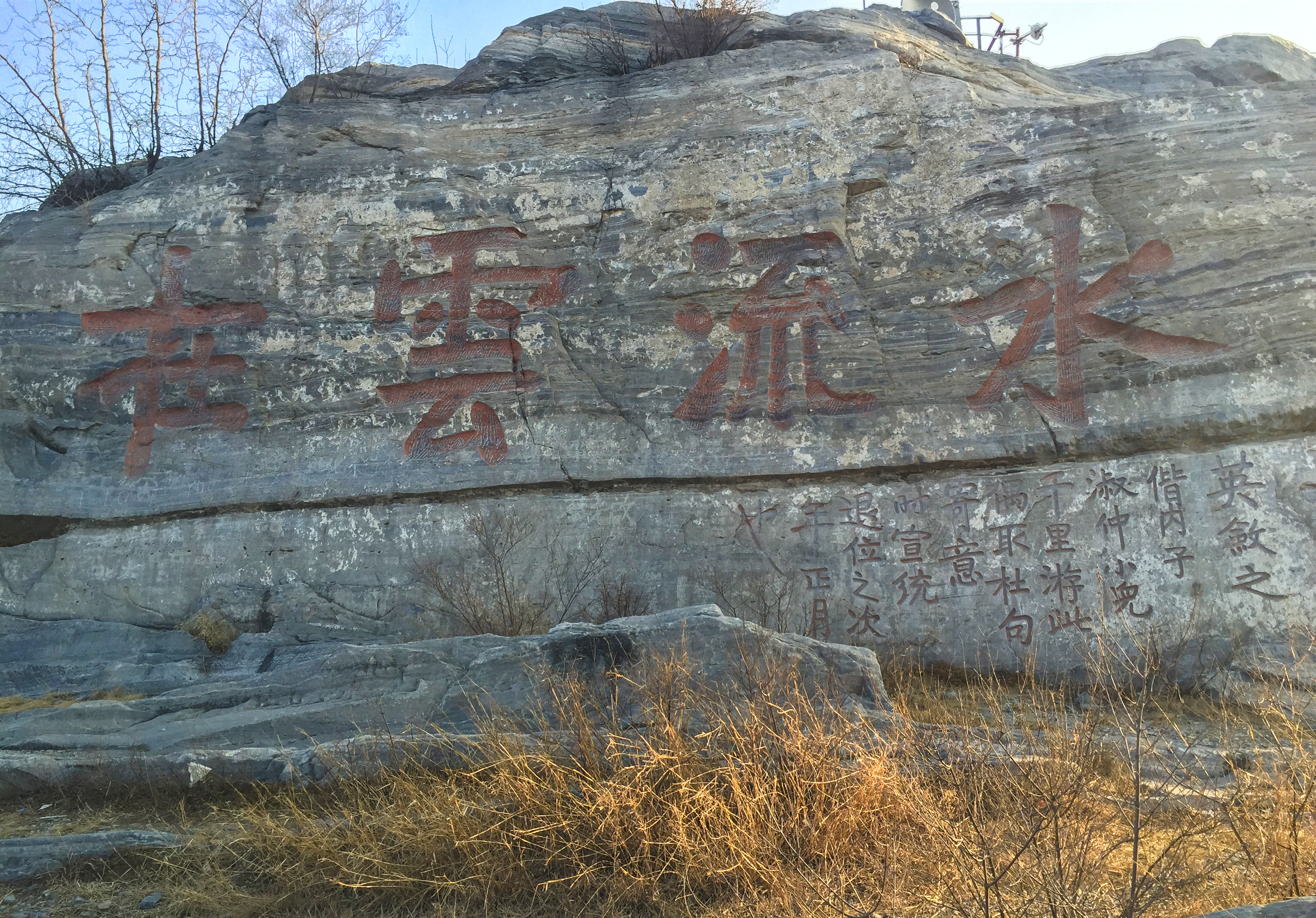 Inscribed by Ying Lianzhi in 1913. Ying Lianzhi (born Yu Yinghua, 1867-1926) was the grandfather of Ying Ruocheng, the famous actor of Beijing People's Art Theatre.